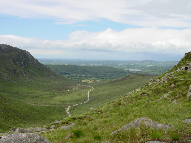 At Hares Gap with the view NW down the Tressay Track. Hares Gap is a prominent col in the Mourne Mountains. The view here is taken looking NW from Hares Gap towards the Tressay Track.